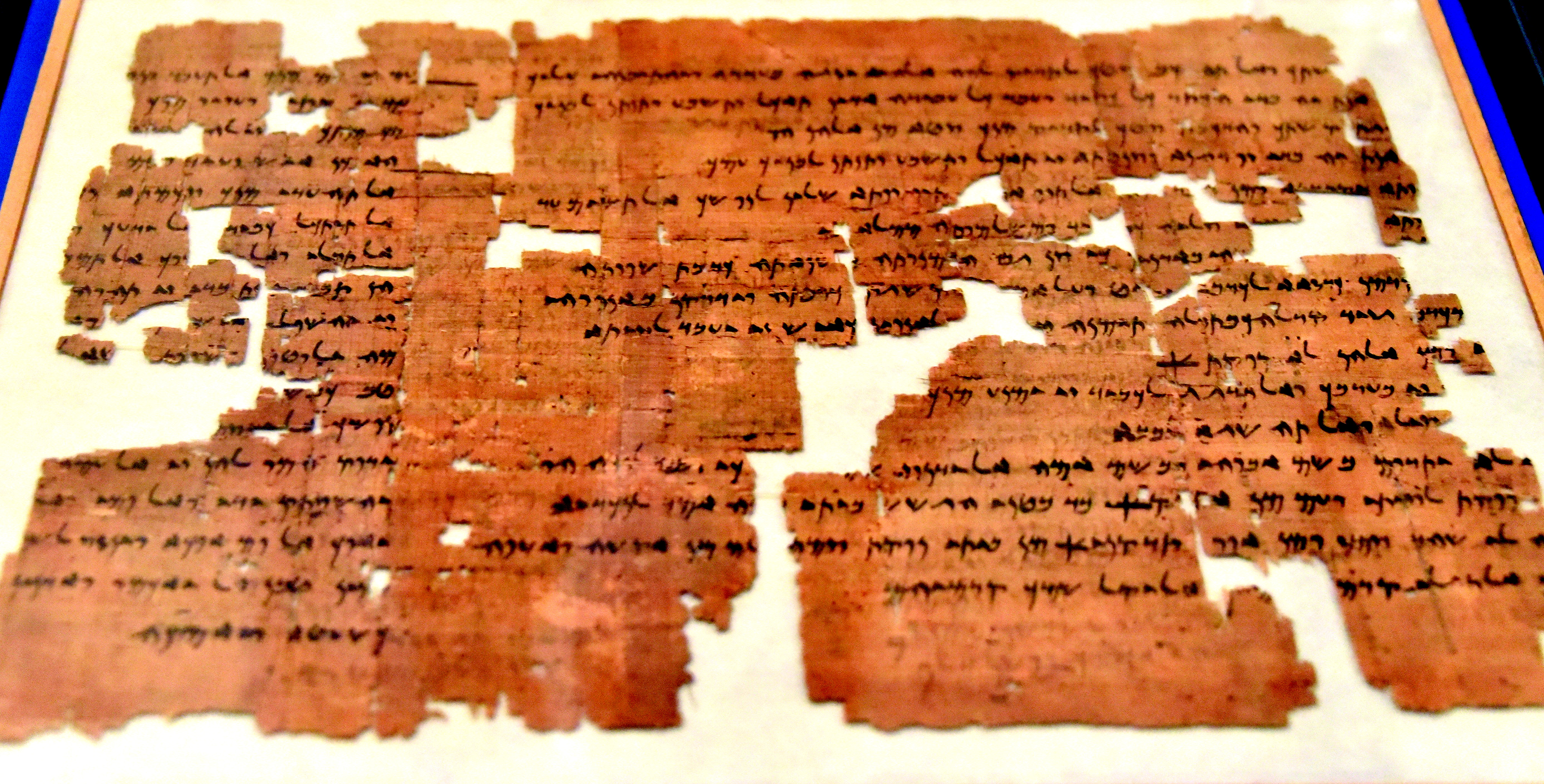 Papyrus narrating the story of the wise chancellor Ahiqar. Aramaic script. 5th century BCE. From Elephantine, Egypt. Black ink on papyrus. It was displayed at the Neues Museum in Berlin, Germany, Exhibition of "Cinderella, Sindbad & Sinuhe, Arab-German Storytelling Traditions", April 18, 2019, to August 18, 2019. State Museums in Berlin, Egyptian Museum and Papyrus Collection (Staatliche Museen zu Berlin, Ägyptisches Museum und Papyrussammlung), P13446/G.